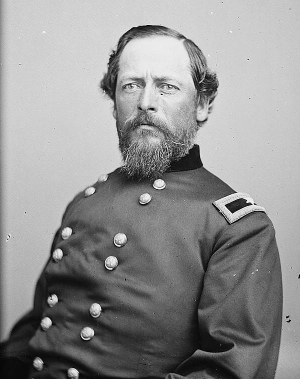 American general Samuel K. Zook.